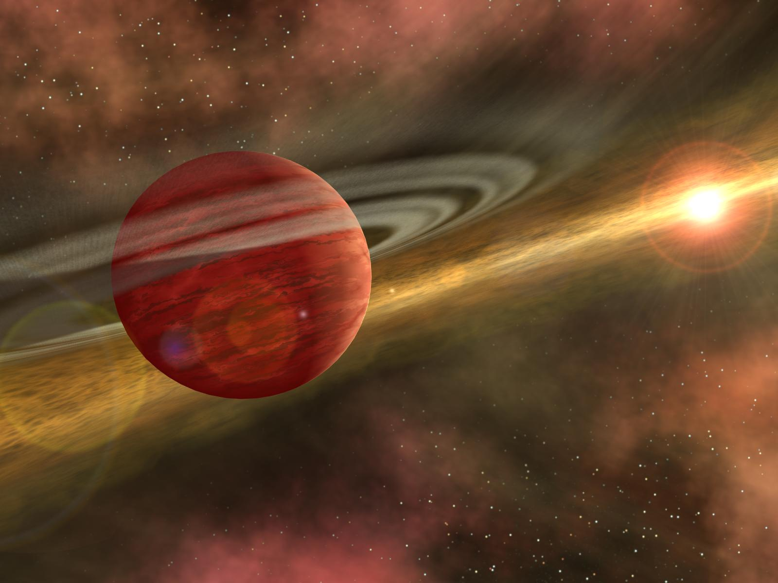 In this artist's conception, a possible newfound planet spins through a clearing in a nearby star's dusty, planet-forming disc. This clearing was detected around the star CoKu Tau/4 by NASA's Spitzer Space Telescope. Astronomers believe that an orbiting massive body, like a planet, may have swept away the star's disc material, leaving a central hole.